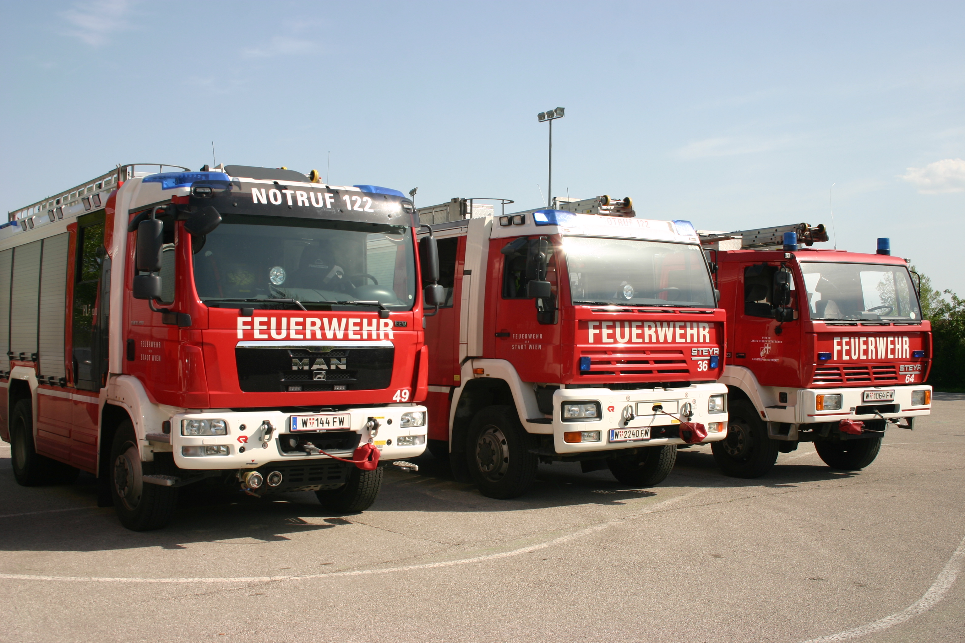 Three generations of fire engines from the Vienna City Fire Department. The left one is named 'HLF, the middle one 'RLF' and the right one 'BLF'. They are equipped with water (between 1200 and 2000 litres), foam (60 - 100 litres), heavy rescue equipment, jaws of life, several ladders - the highest one is about 14 metres long - and other technical gear. These vehicles are staffed by six firemen.